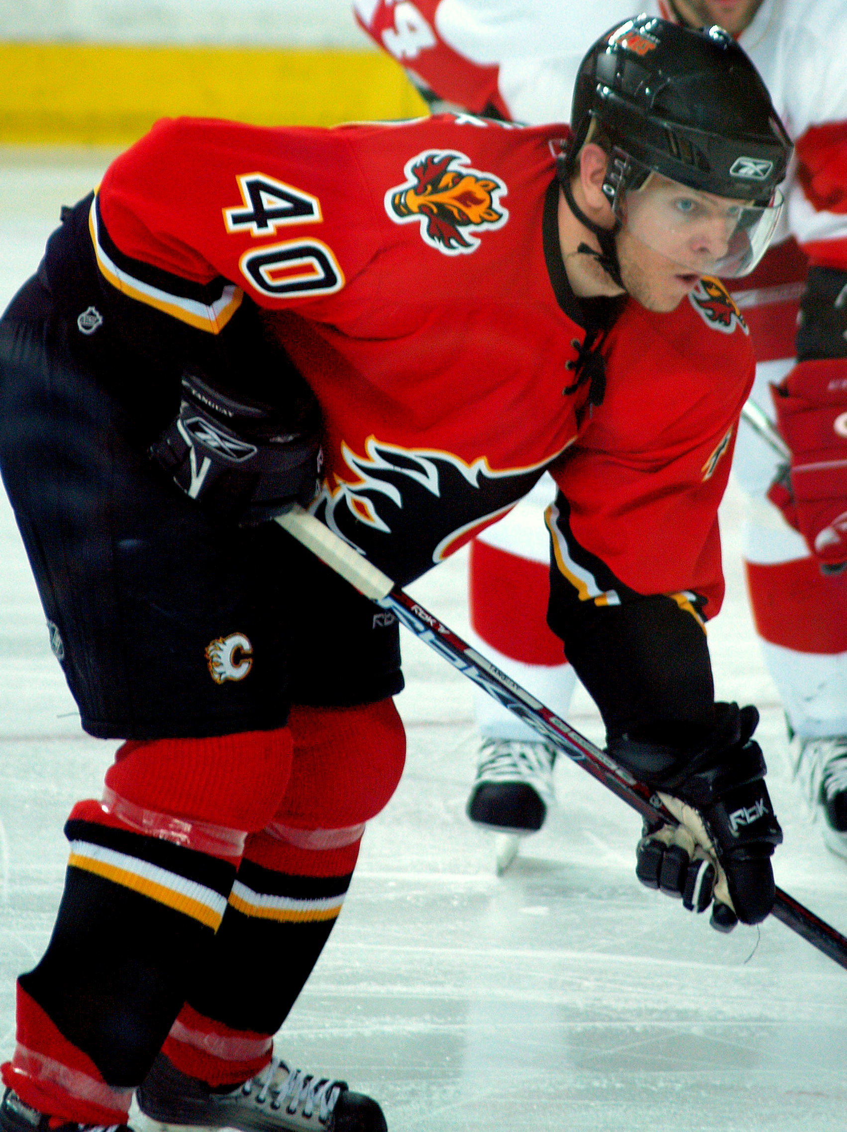 Alex Tanguay of the Calgary Flames with Todd Bertuzzi in the background